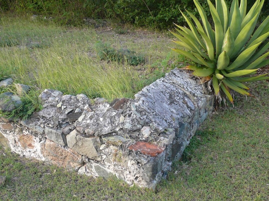 Photograph of the ruined barracks of the Whelk Point Fort